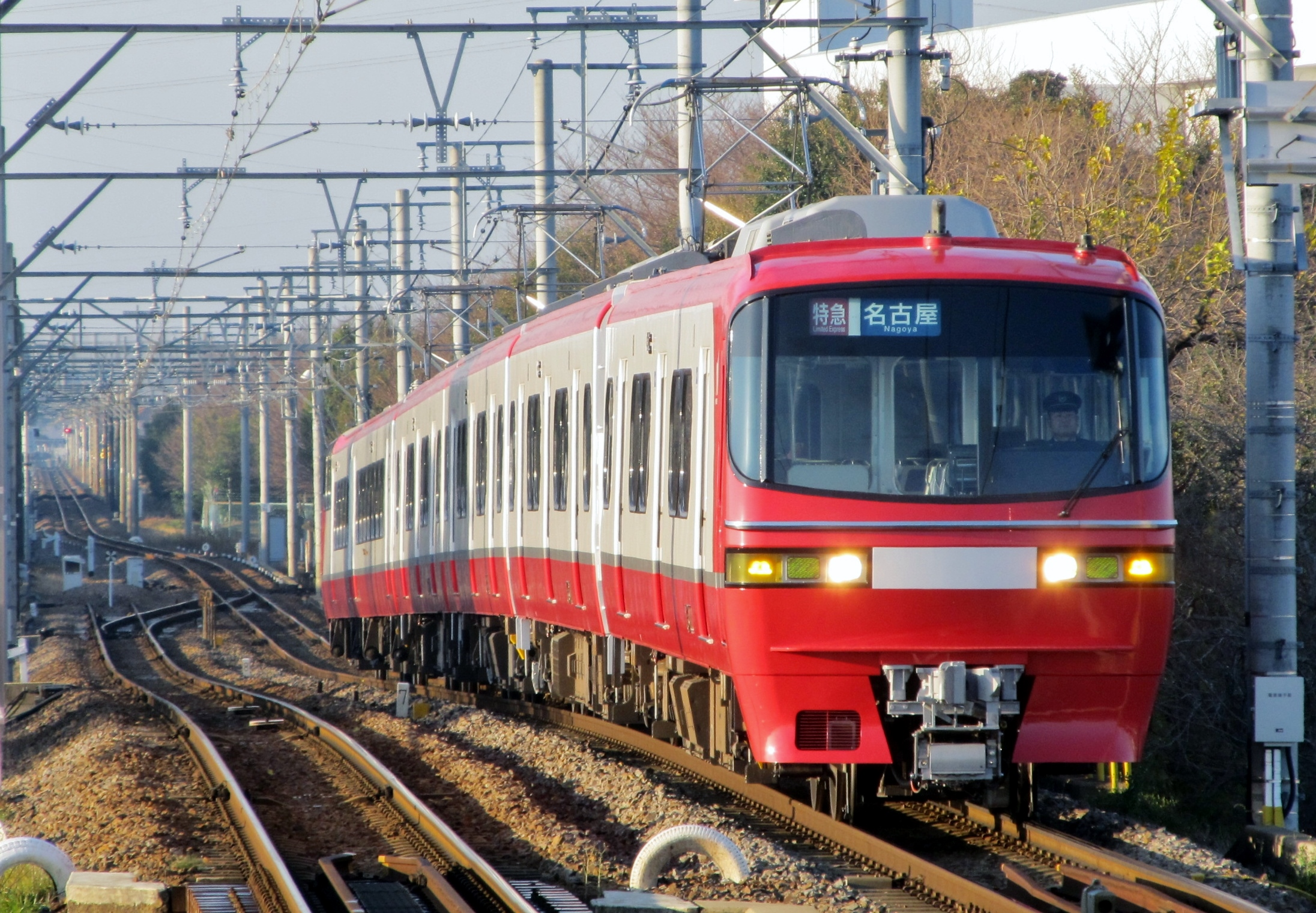 Meitetsu 1200 series Ordinary Cars (After renewal). Limited Express bound for Meitetsu Nagoya.